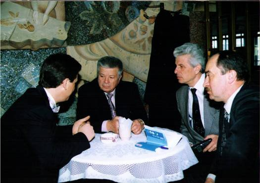 Alexey Lushnikov i Svyatoslav Fedorov